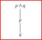 Captura algebra para la edificación